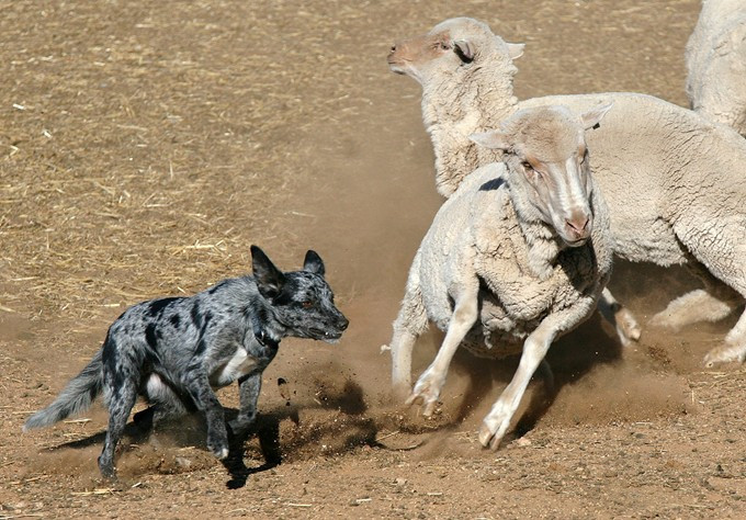 Blue merle 42cm